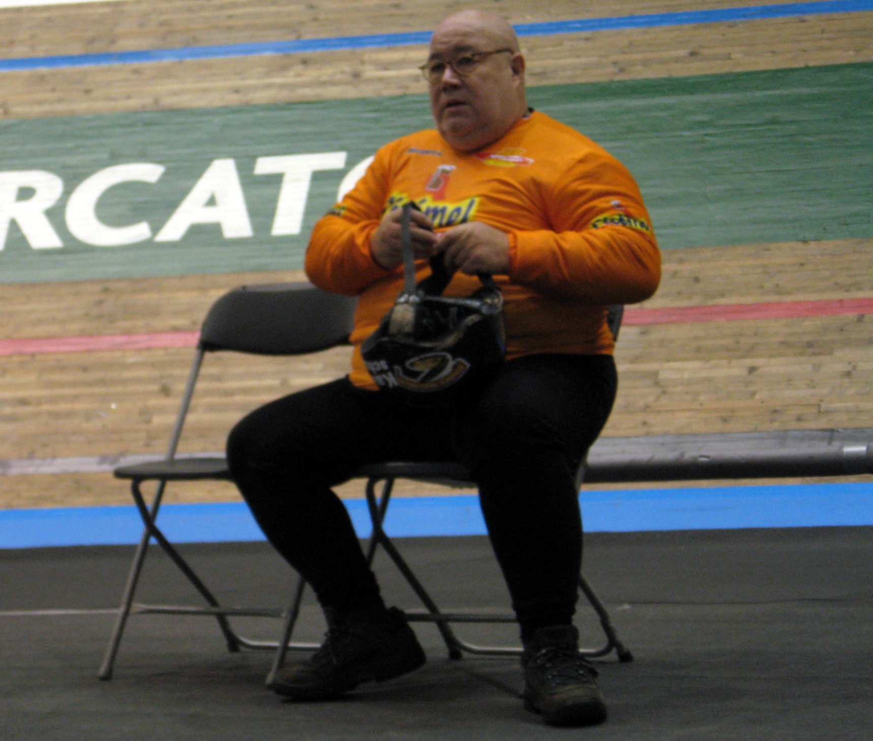 Joop Zijlaard (derny racer) during the Six Days of Flanders-Ghent (2008)